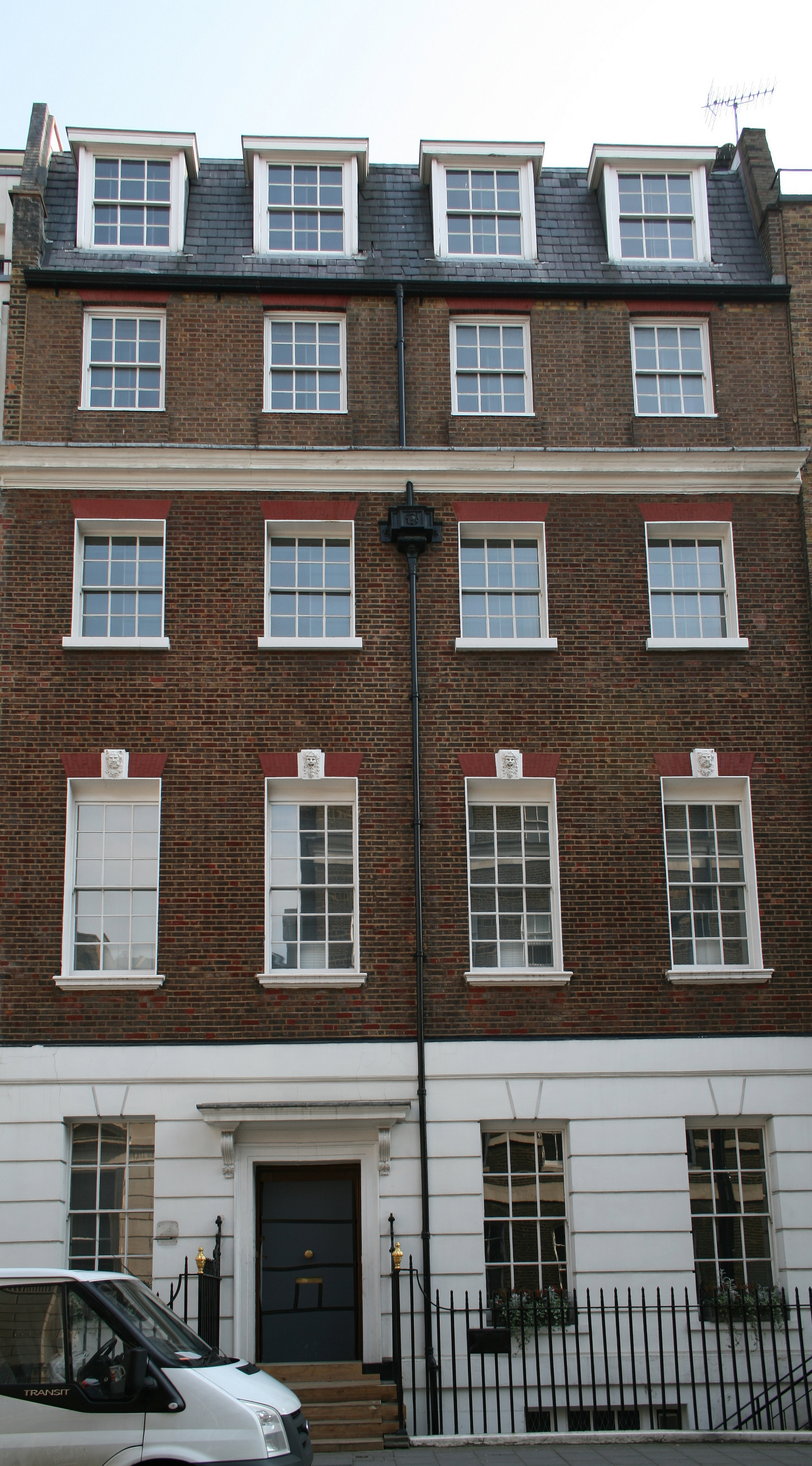 View from the street of the front of 3 Savile Row